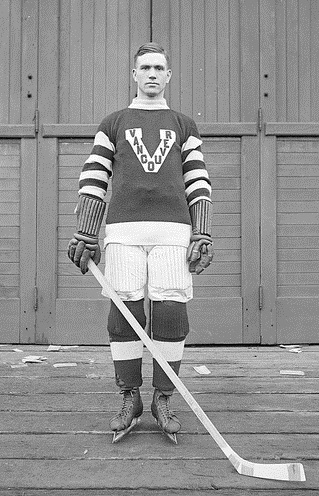 Lloyd Cook of the Vancouver Millionaires hockey team